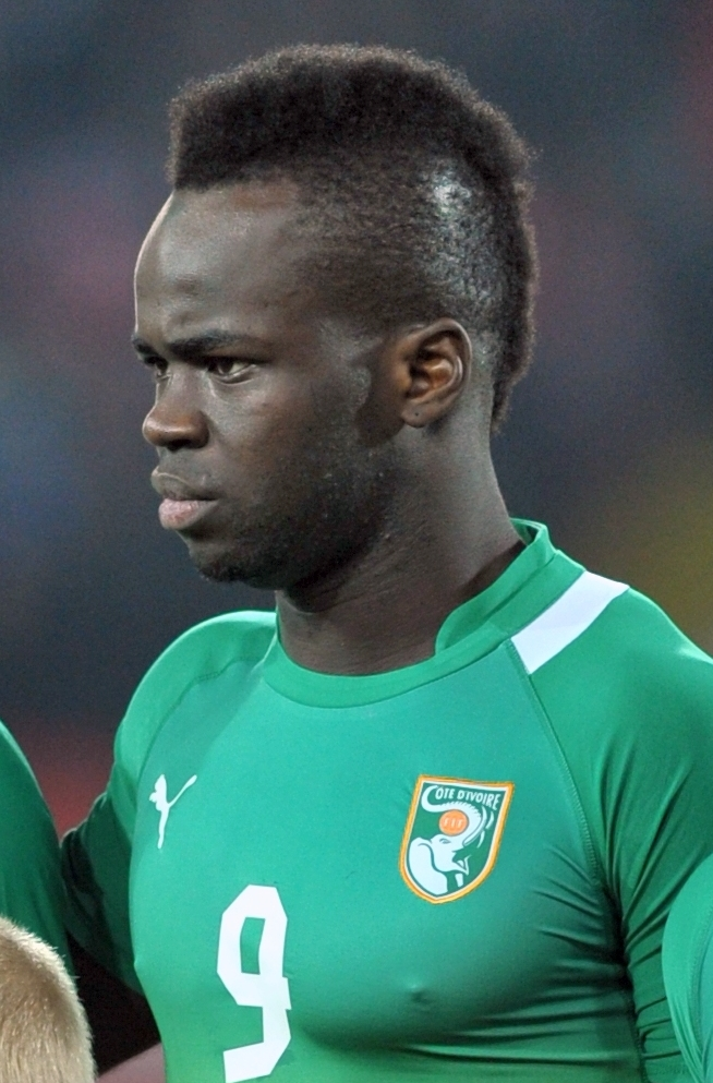 ÖFB freundschaftliches Länderspiel - Österreich vs Elfenbeinküste am 14. November 2012 The making of this work was supported by Wikimedia Austria. For other files made with the support of Wikimedia Austria, please see the category Supported by Wikimedia Österreich. Elfenbeinküste Nr. 9: Cheick Ismael Tioté